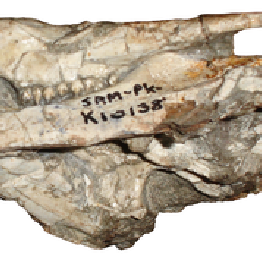 Skull of Cynodont